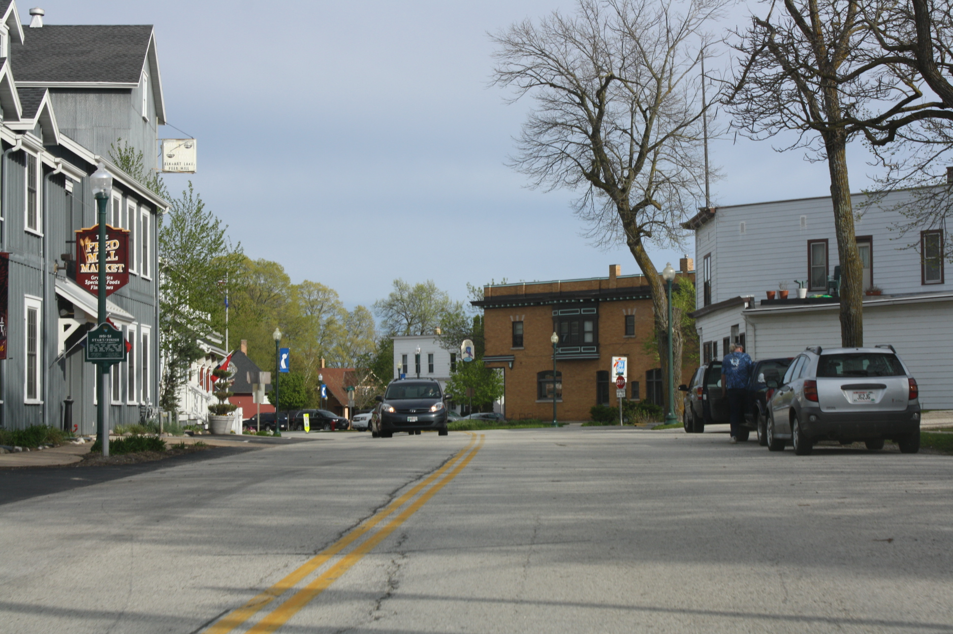 Looking south at the historical sign marking the start/finish line for the 1951 and 1952 races in Elkhart Lake, Wisconsin, USA. The site is located on Kettle Moraine Scenic Drive.